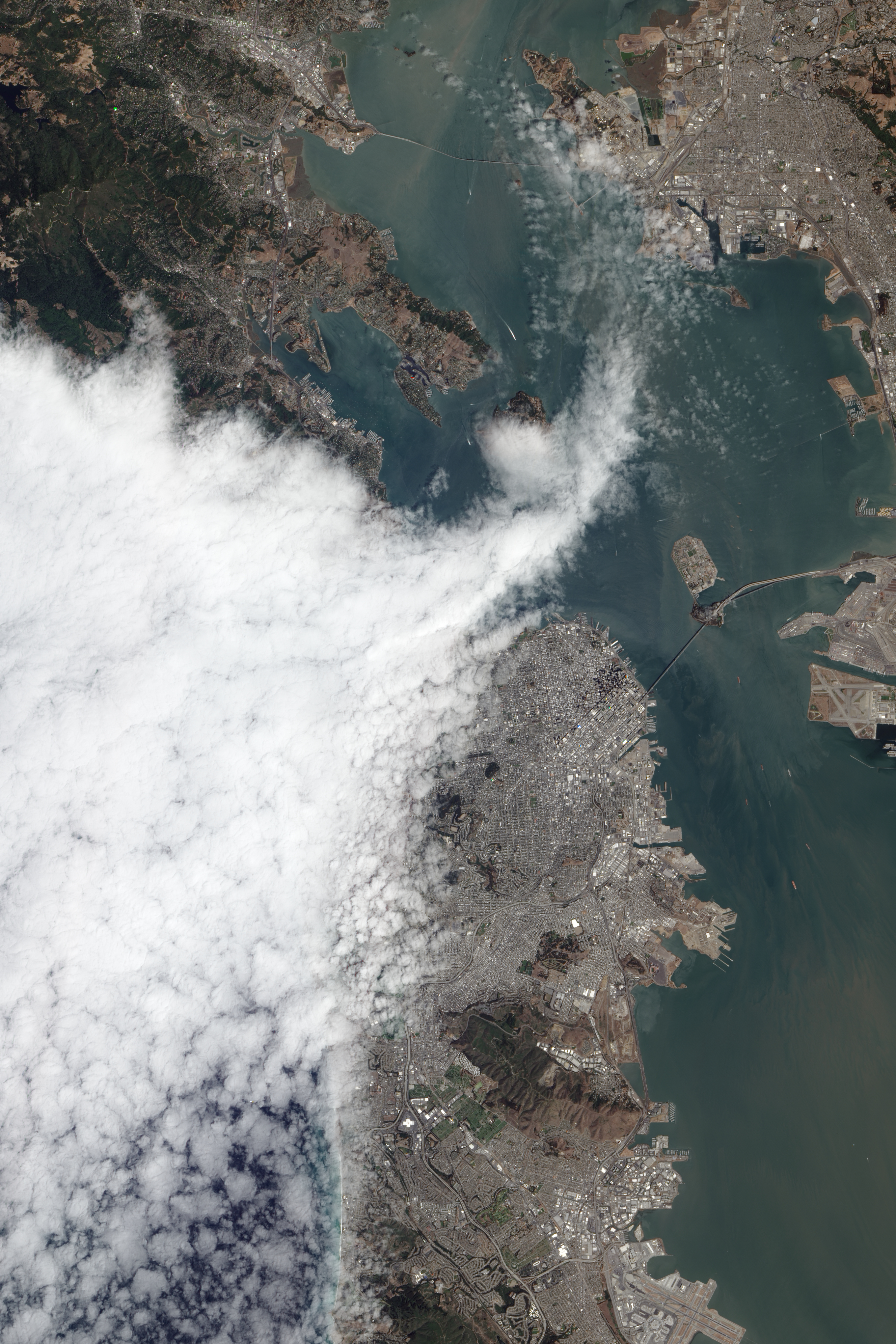 The Advanced Land Imager (ALI) on NASA’s Earth Observing-1 (EO-1) satellite acquired this view of fog encroaching on the city on August 16, 2012. The fog is part of the marine layer, a mass of cool, dense air from the sea that was sandwiched beneath a layer of warmer air as part of a temperature inversion. Fog is often present in the lower part of the marine layer, whereas wispy stratus clouds form in the upper part.